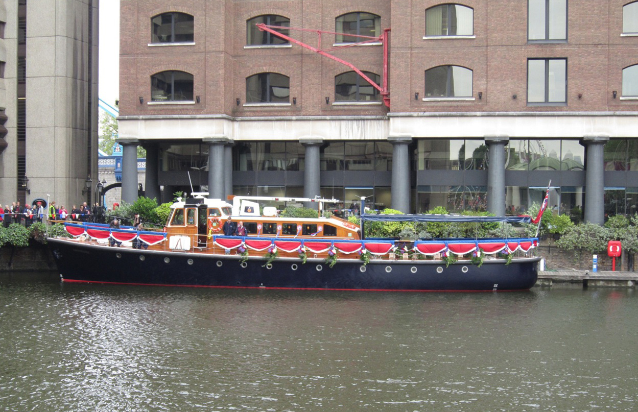 MV Havengore in St. Katharine Docks London, being decorated ready for H.M.Queen Elizabeth II's Diamond Jubilee River Pageant